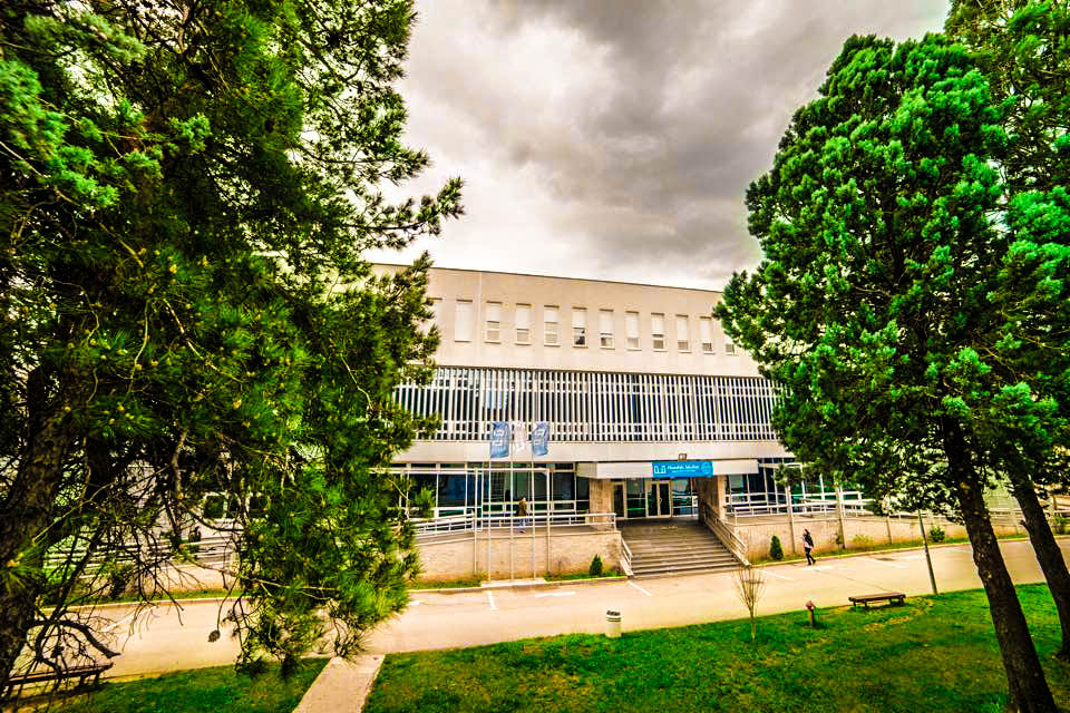 Faculty of Humanities, University of Mostar